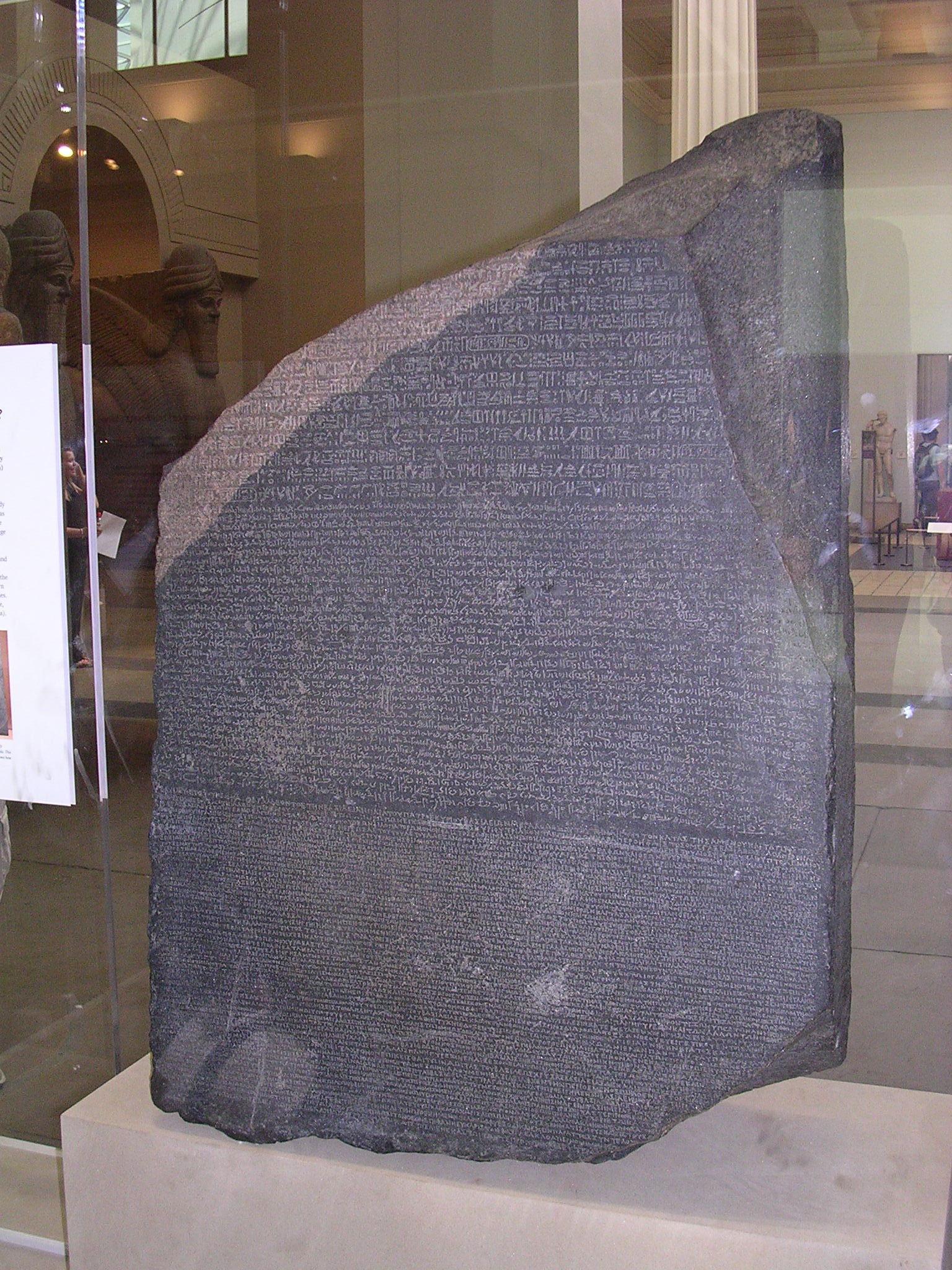 Rosetta Stone: a granodiorite stele with a decree written in Ancient Egyptian hieroglyphs, in Demotic and in Ancient Greek